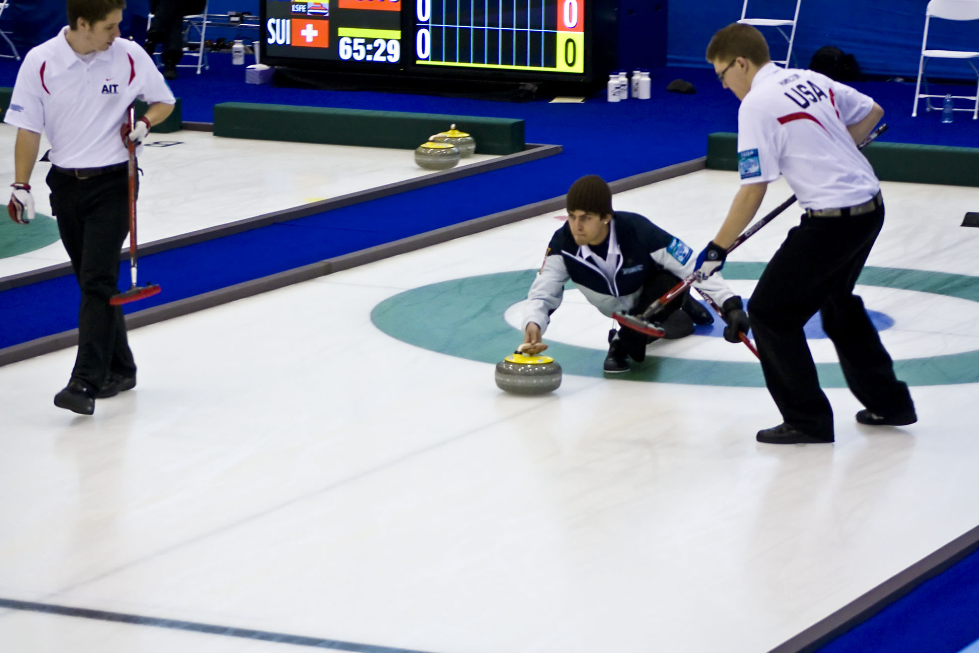 Team USA, Chris Plys throwing, 2009 World Junior Curling Championships